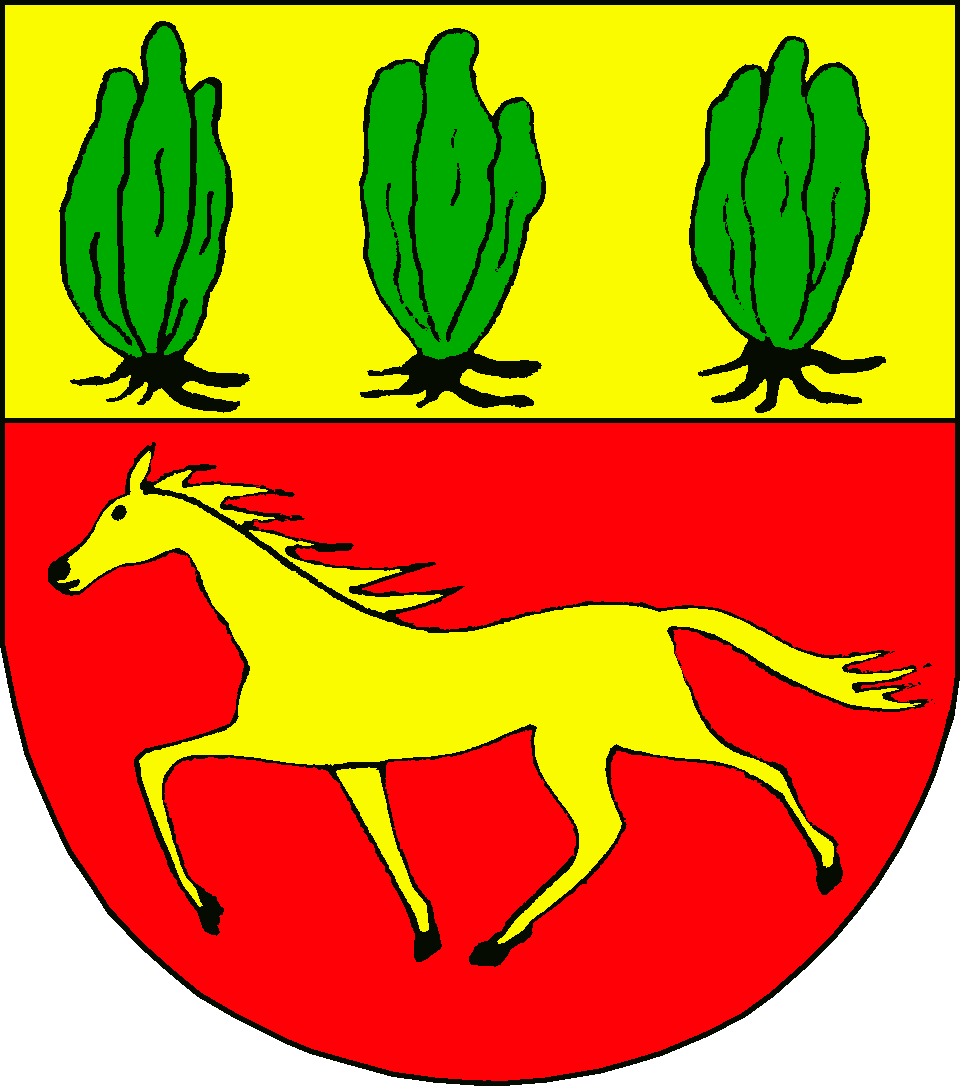 Coat of arms of the municipality Reher in Schleswig-Holstein, Germany.